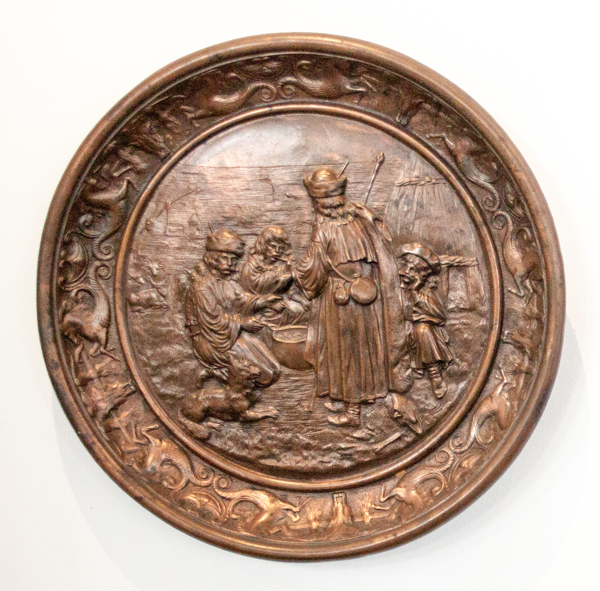 Brassed plateau with a life scene, portrait of Rubens, made in Dernő (Drnava) factorylabel QS:Len,"Brassed plateau with a life scene, portrait of Rubens, made in Dernő (Drnava) factory" label QS:Lhu,"Bronzírozott öntöttvas tál, gróf Andrássy Manó dernői vasgyárának terméke"